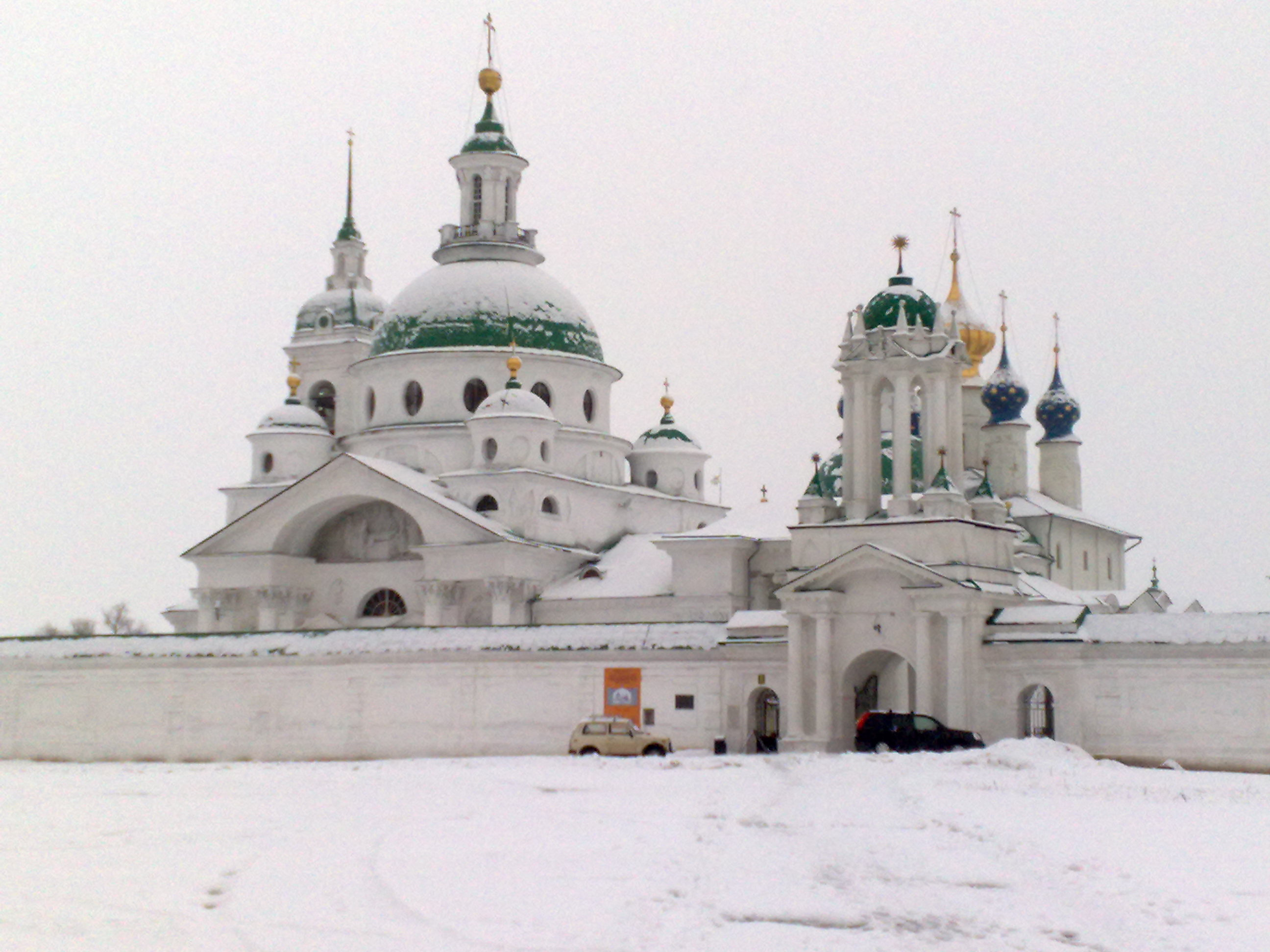 Yakovlevsky monastery, city Rostov